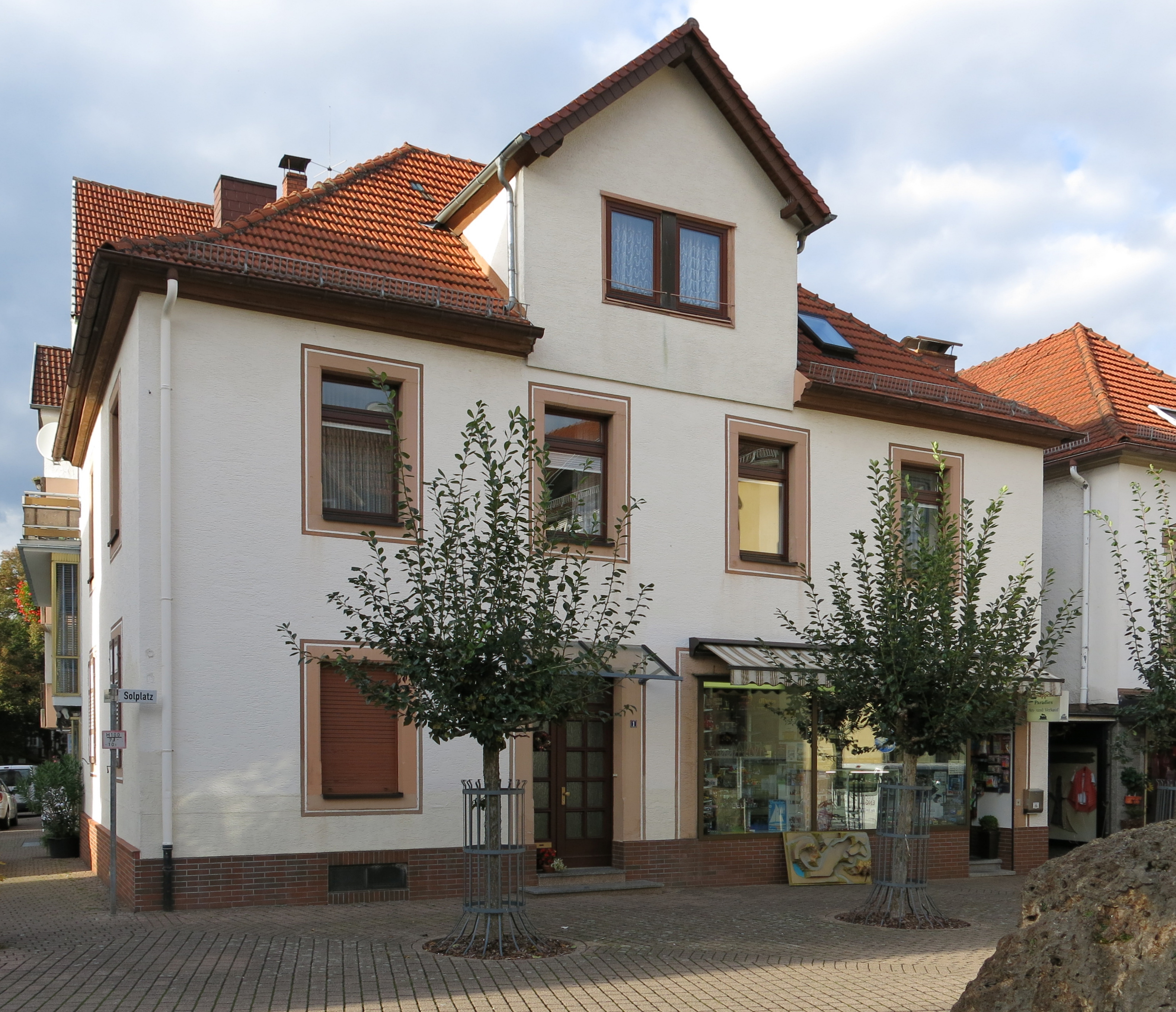 Former synagoge in Bad Orb, Hesse.